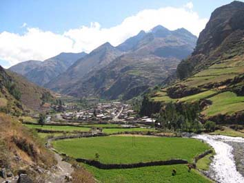 Aquia town